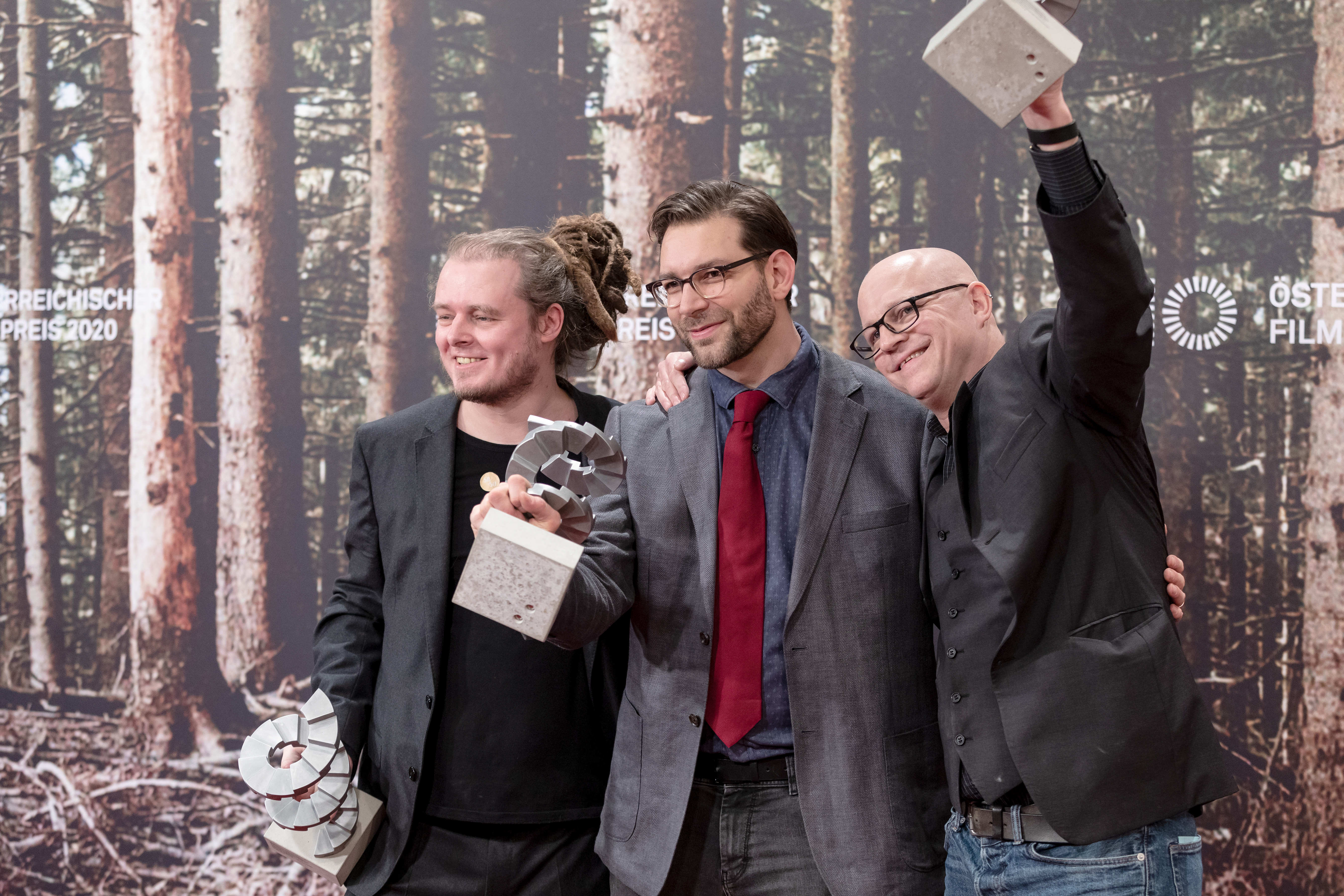 Thomas Pötz, Gregor Kienel and Rudolf Gottsberger (sound Nevrland) at the award ceremony of the Austrian Film Awards 2020 (Auditorium Grafenegg at Grafenegg Castle, Lower Austria,Austria).